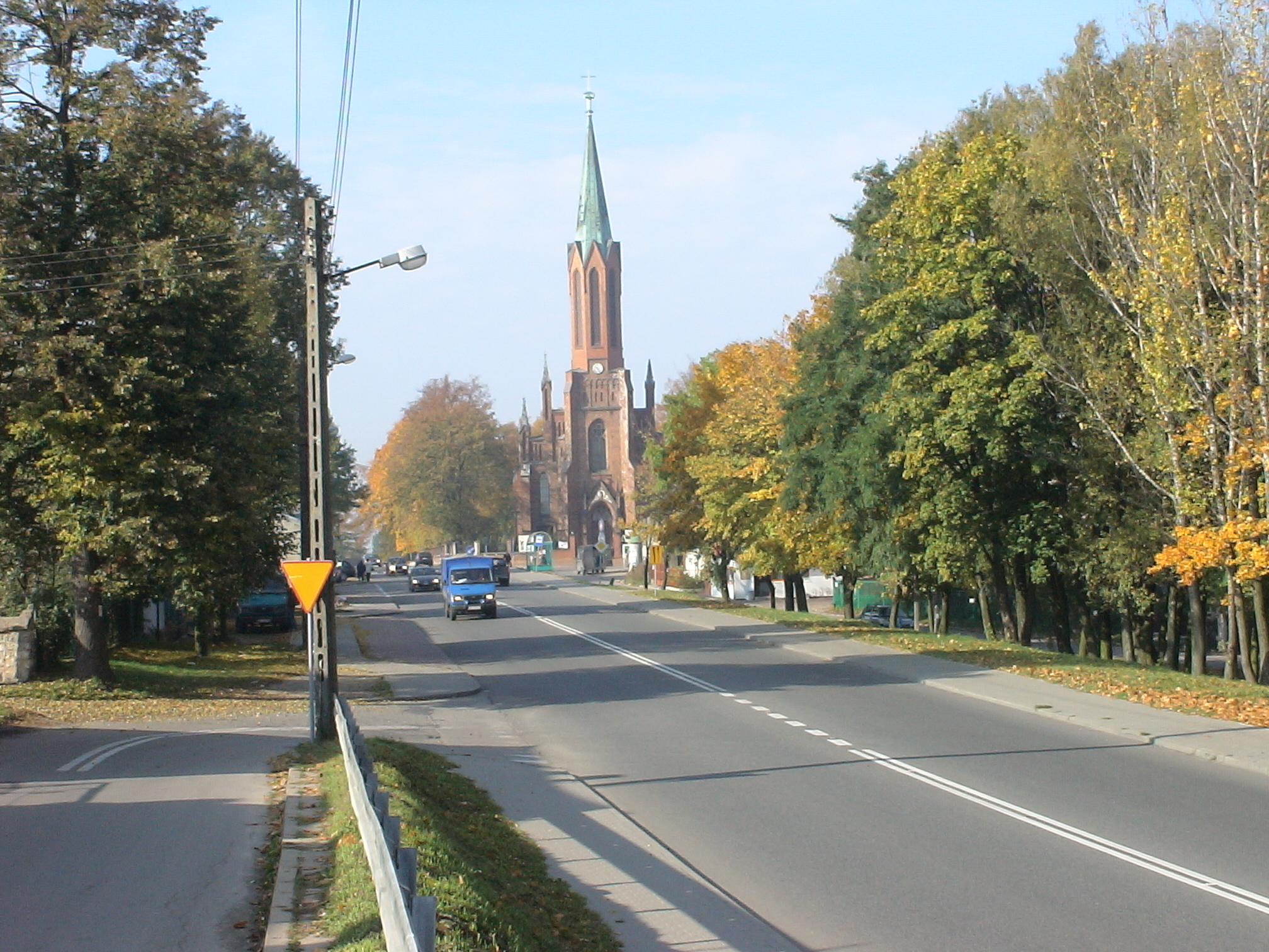 Rędziny - a village in Częstochowa County, Silesian Voivodeship, Poland (situated near Częstochowa). Wolności Street and a parish Roman Catholic church